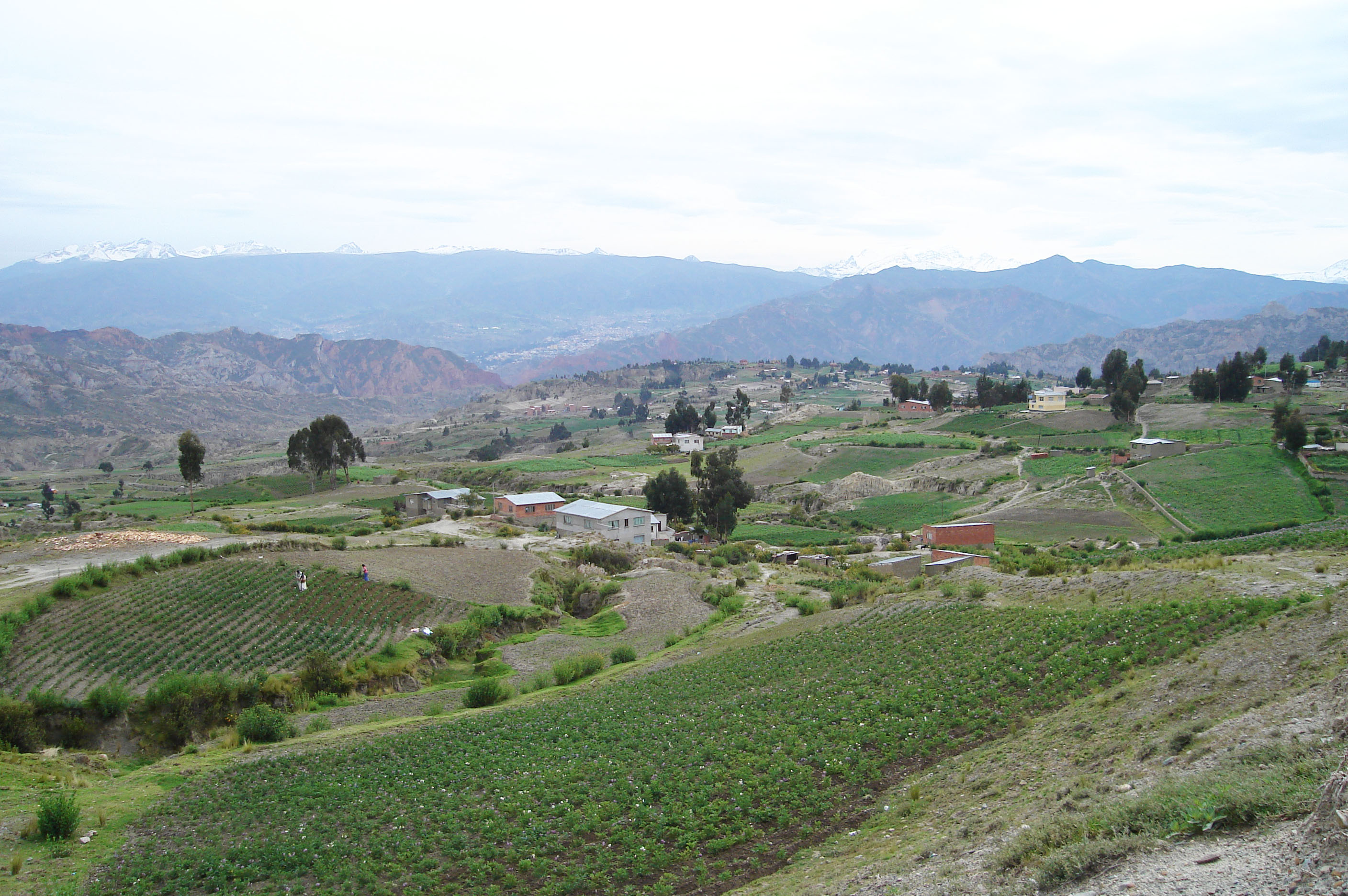 Achocalla, looking east towards Río de la Paz